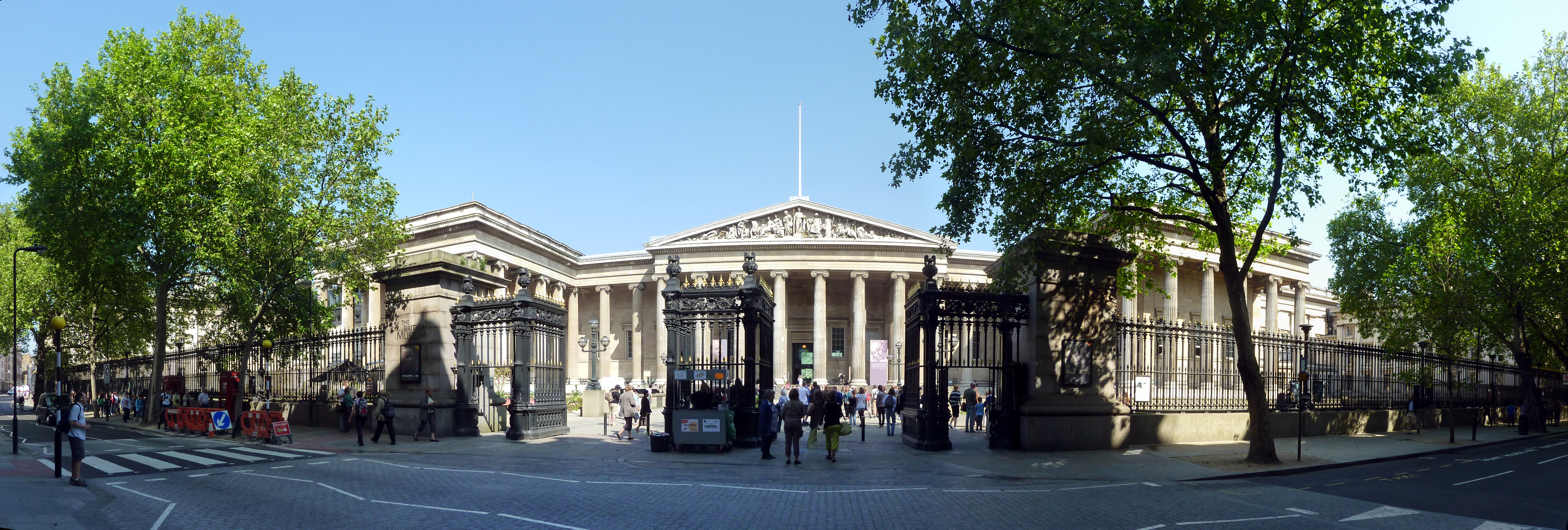 British Museum entrance